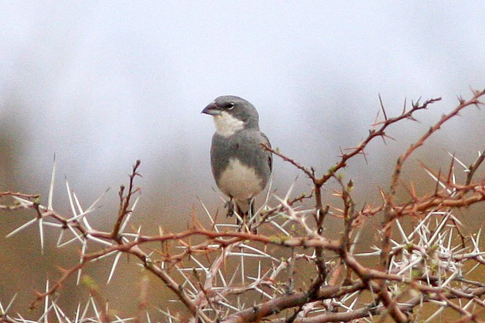 A Common Diuca Finch Diuca diuca between Tafi del Valle and Cafayata, Salta, Argentina.